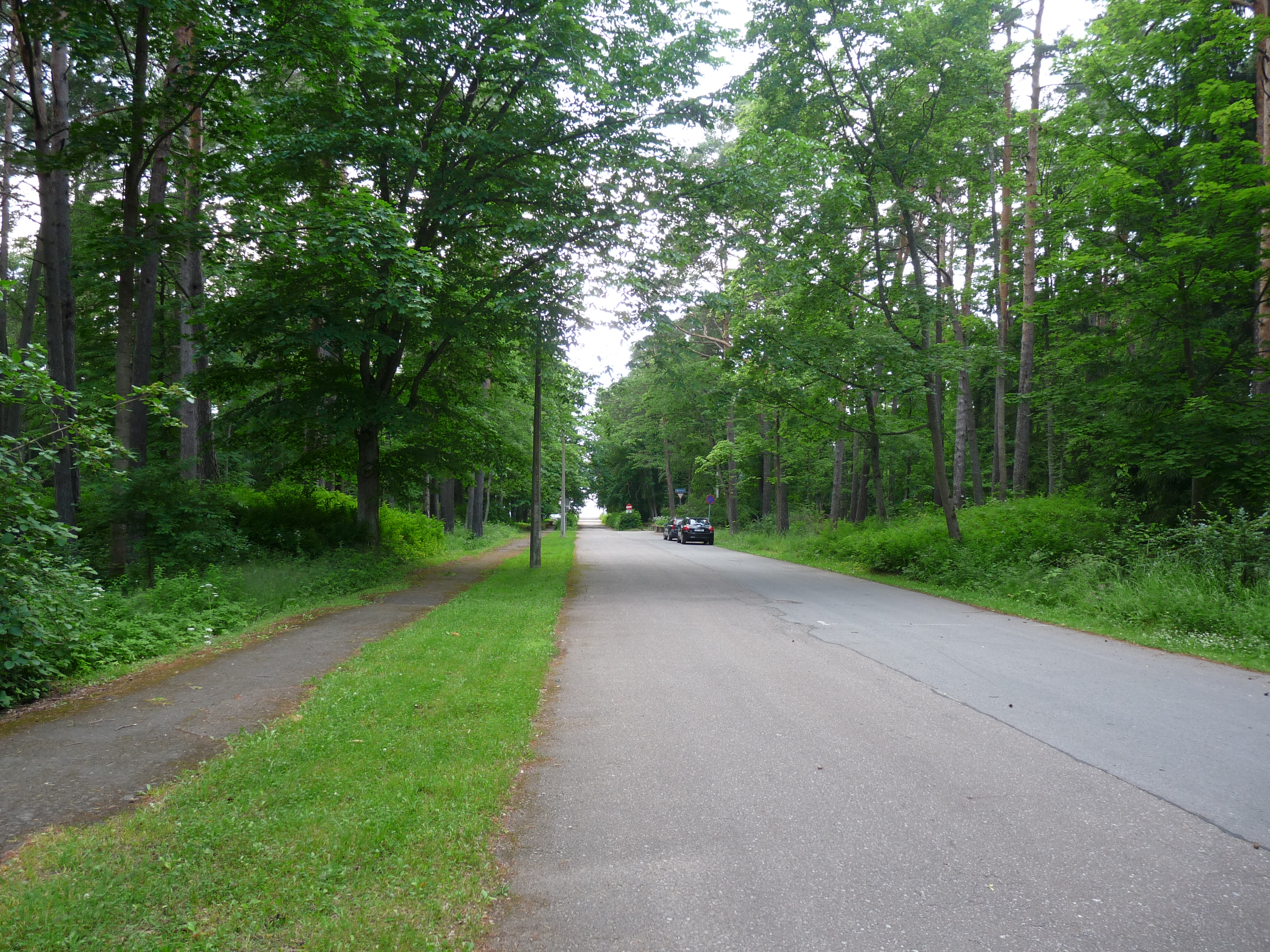 Street in Narva-Jõesuu